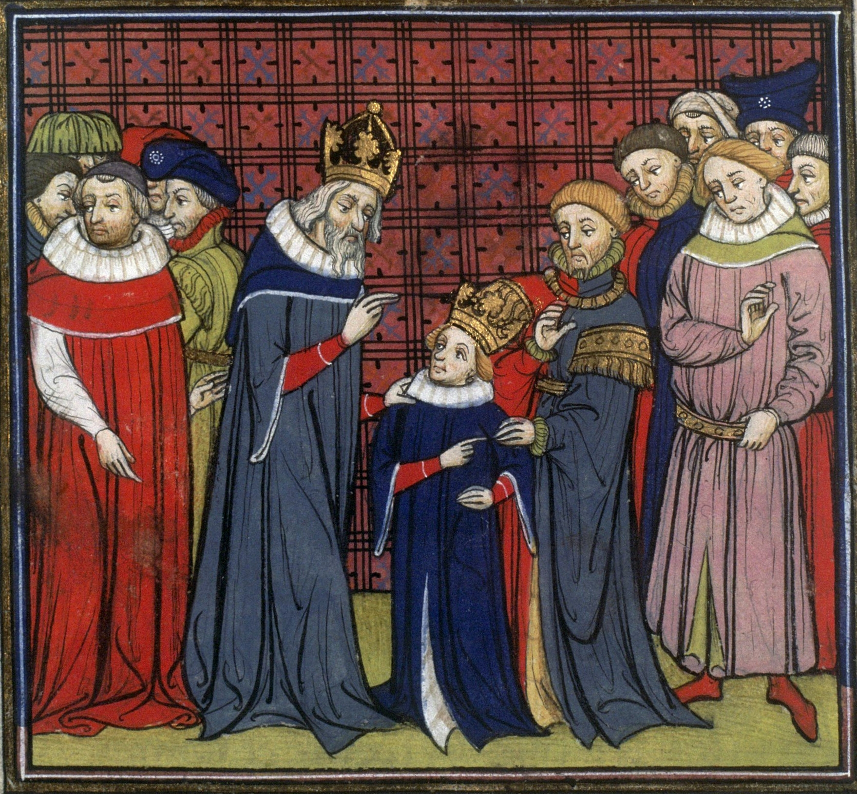 Charlemagne and his son, Louis the Pious. Grandes Chroniques de France, Paris (BnF Français 73, fol. 128v).